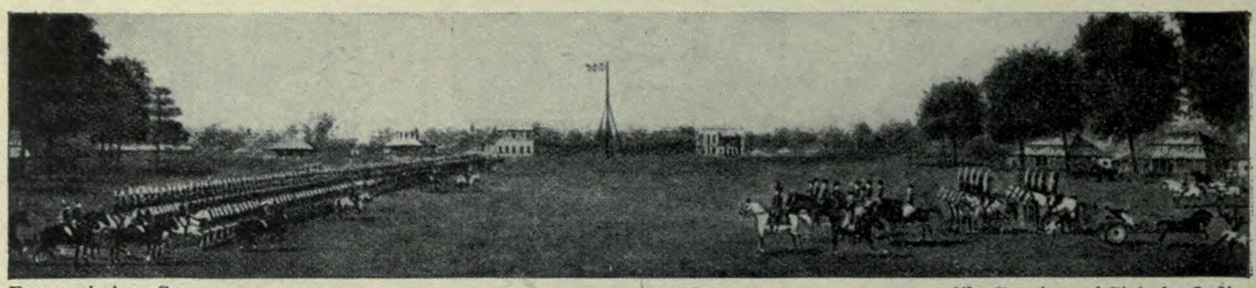 Lord Wellesy reviewing his body guards at Baligunj near Calcutta, 1805. From Hutchinson's story of the nations, containing the Egyptians, the Chinese, India, the Babylonian nation, the Hittites, the Assyrians, the Phoenicians and the Carthaginians, the Phrygians, the Lydians, and other nations of Asia Minor.